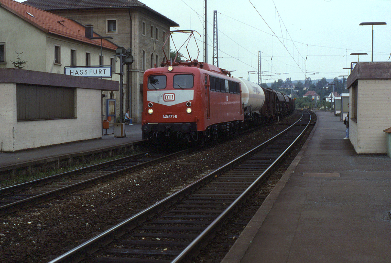 140.871 passes through Haßfurt on a freight on 26 September 1991.